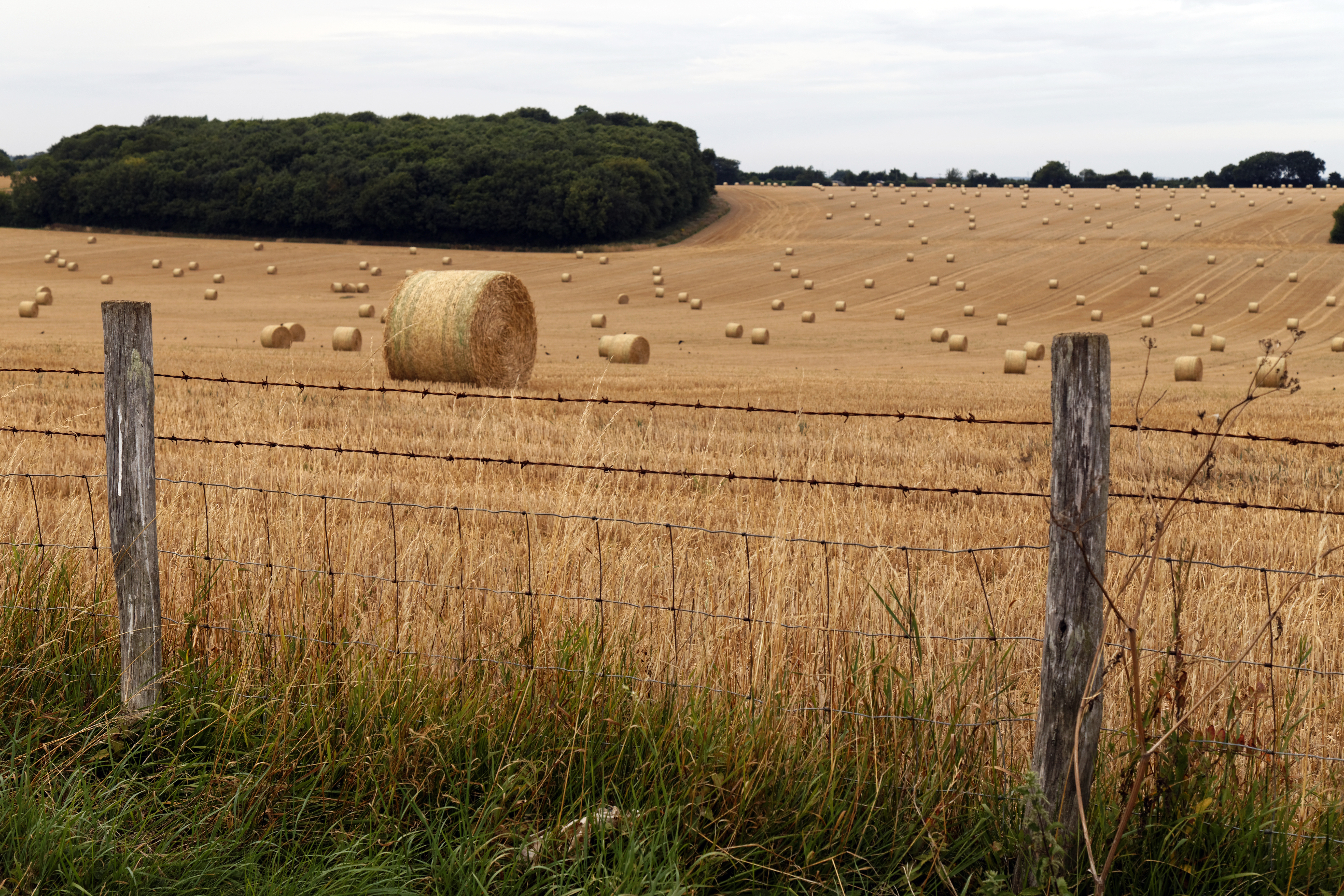 Harvest field in the civil parish of Aylesham, Kent, England.Software: RAW file lens-corrected, optimized and converted to JPEG with DxO OpticsPro 10 Elite, and likely further optimized and/or cropped and/or spun with Adobe Photoshop CS2.